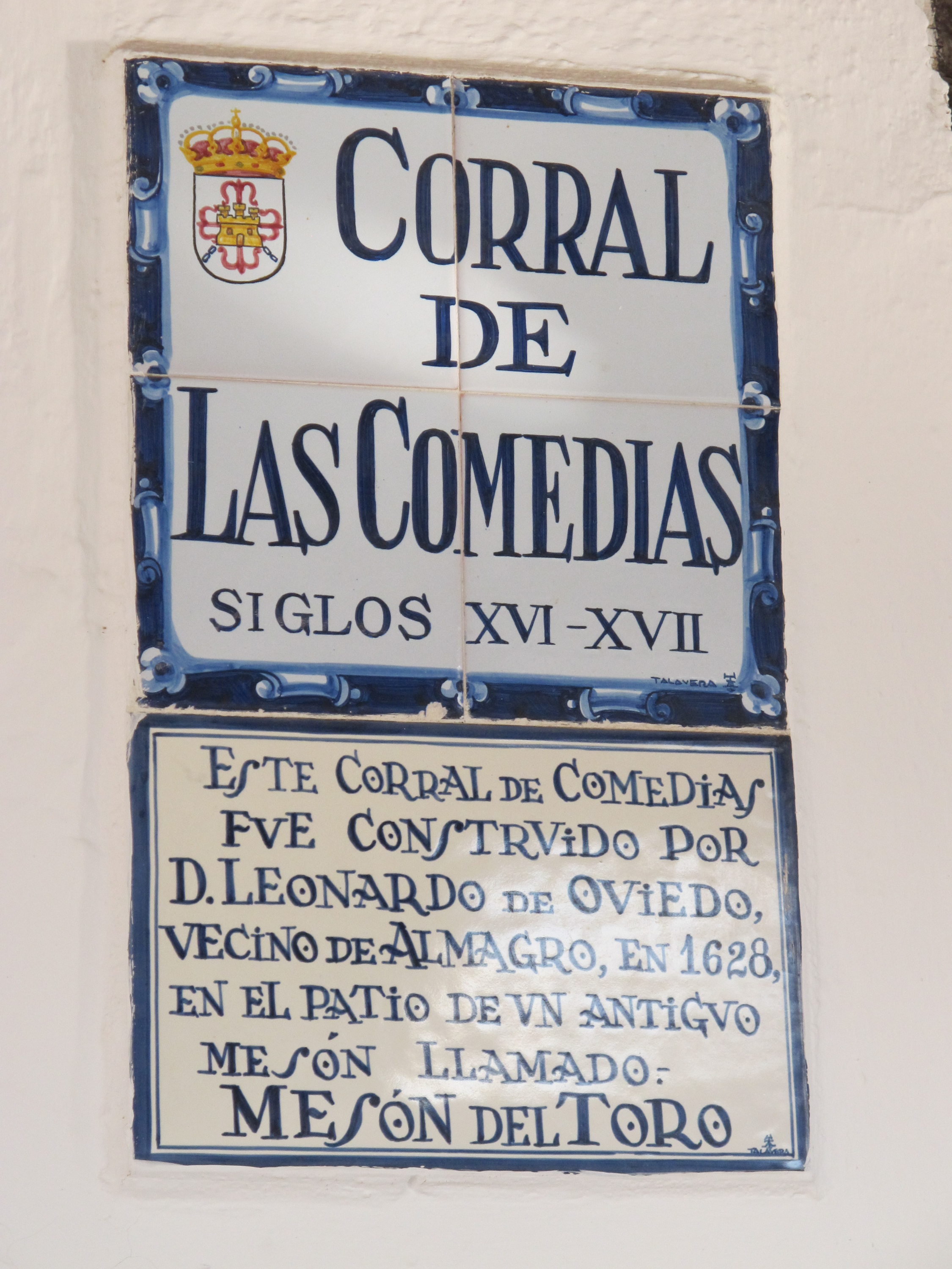 Old theatre of Almagro, Ciudad Real, Spain.